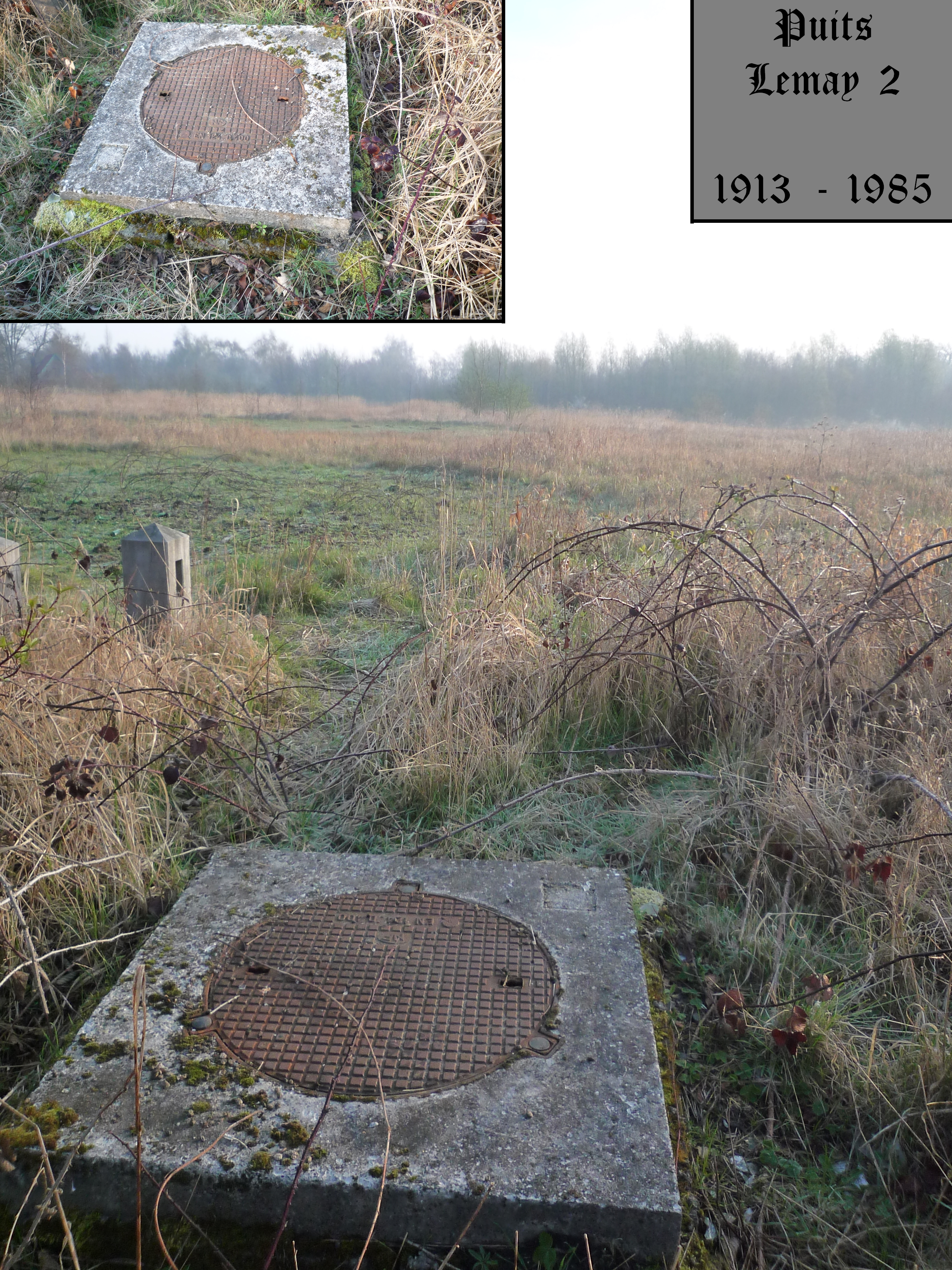 Pit Lemay #2 at Pecquencourt, France.